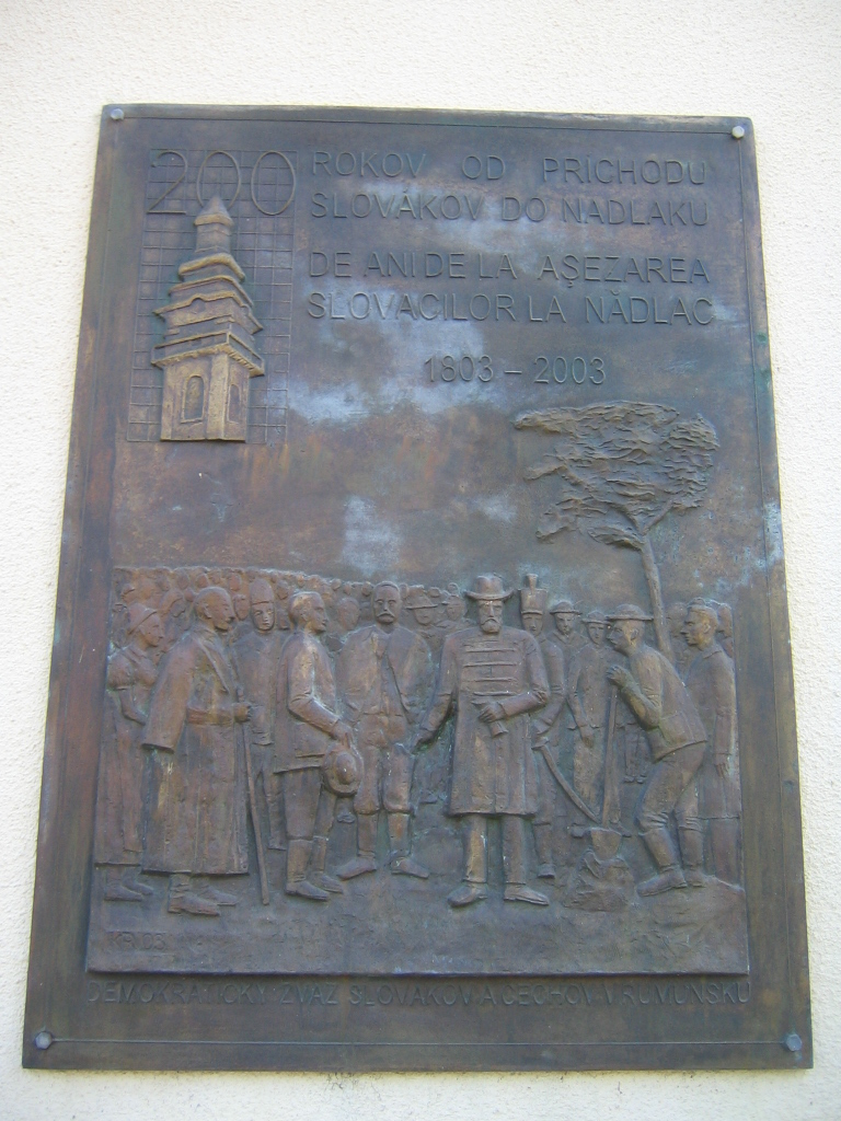 Commemorative plaque of Slovak colonization at Nadlac in 1803 on the Evangelical Church.